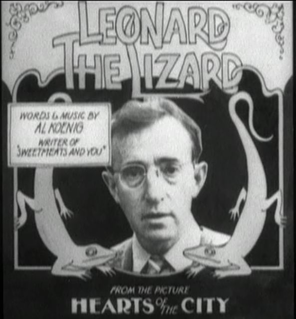 indústria do herói